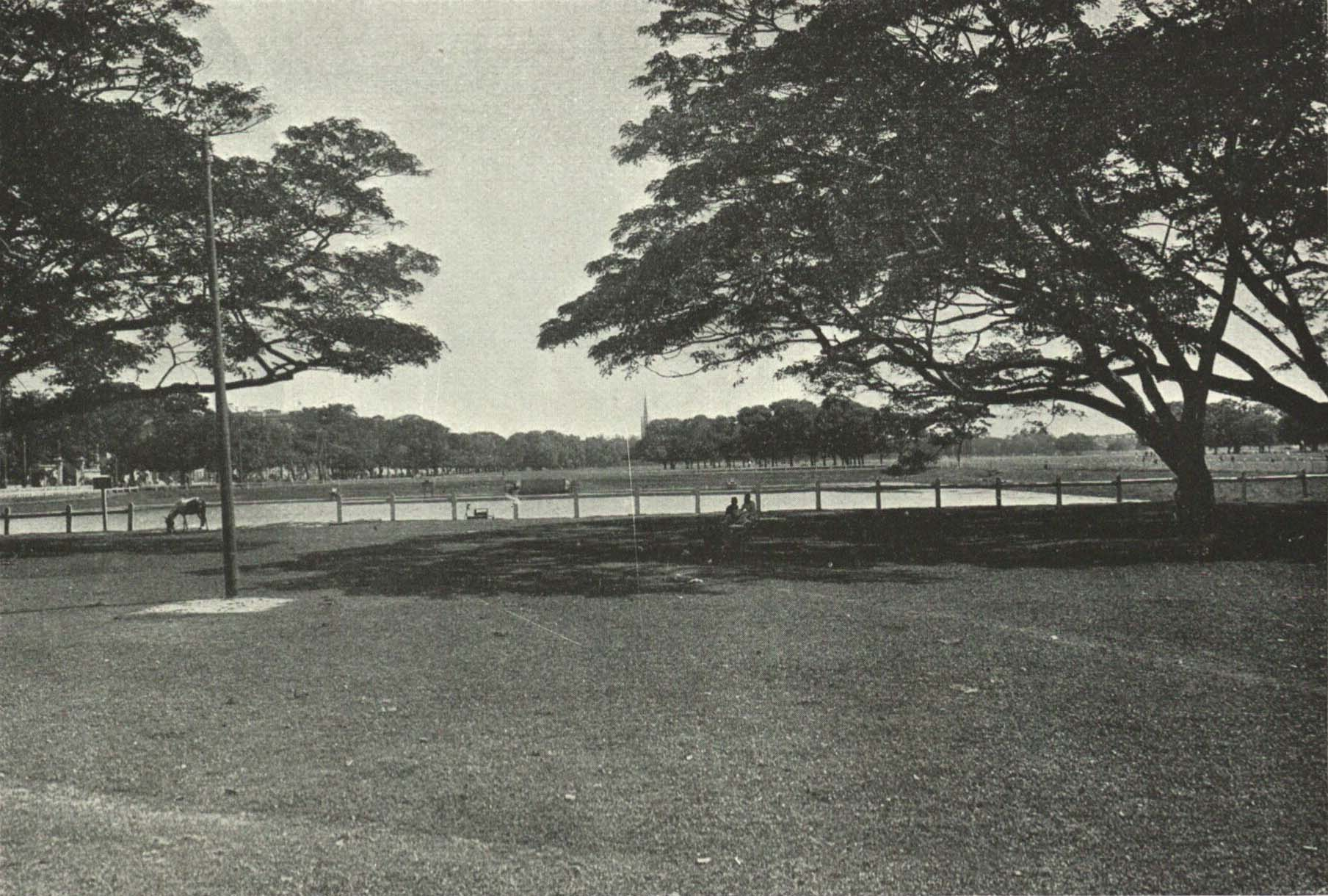 The Maidan is bounded on the west by the Hoogly and the east by Chowringhee. It is nearly 2 miles long and 1 1/4 miles broad.